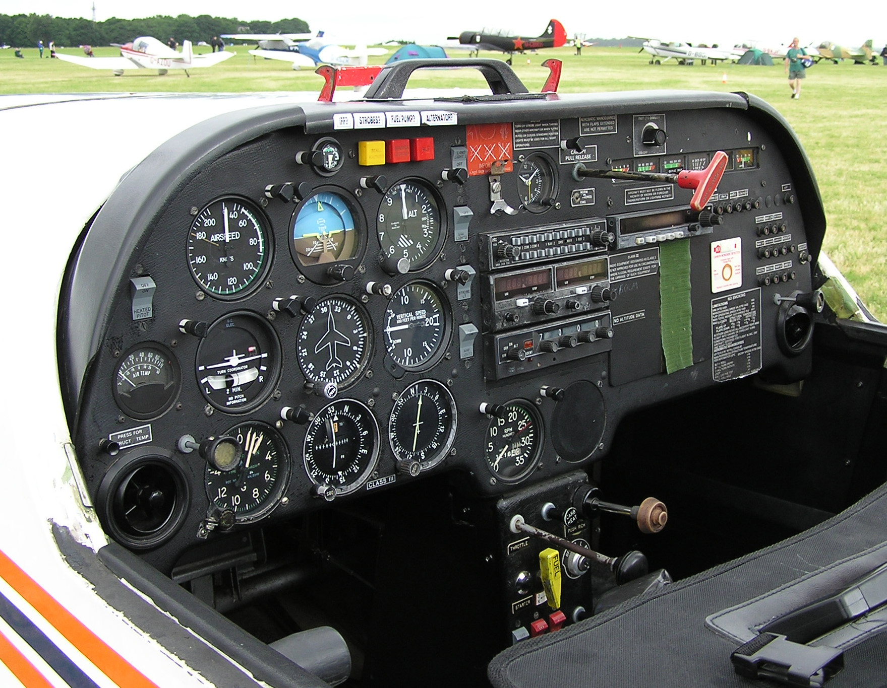 Slingsby Firefly T67C (G-BOCM) cockpit at the Popular Flying Association Rally, Kemble Airfield, Gloucestershire, England. Aircraft manufactured 1986.